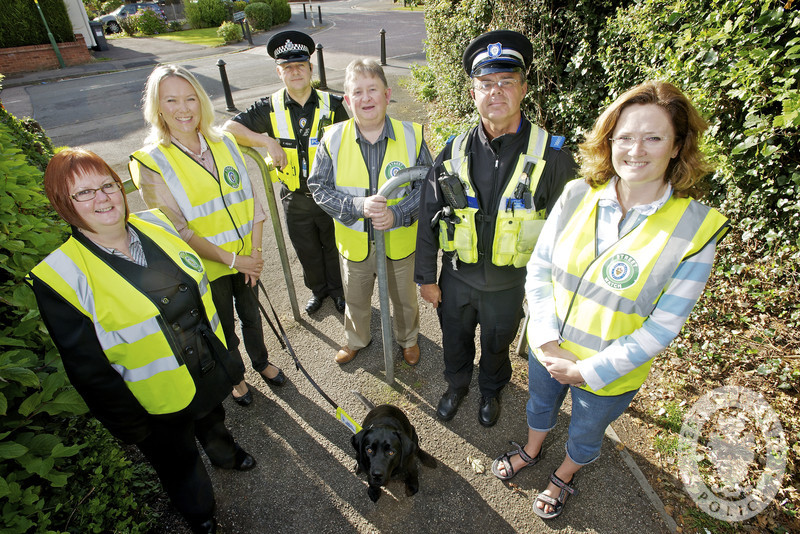 Nice photo showing Street Watch volunteers working with police in Olton, Solihull. Street Watch is a voluntary scheme that empowers local communities to make a real difference. Officers from the Olton neighbourhood policing team are inviting members of the community to join them in tackling low level crime by joining their local Street Watch. Street Watch is open to people who want to work in partnership with the police and take a more active role in making their communities safer. Members can work with officers to tackle anti-social behaviour and take part in visible, reassuring patrols in their neighbourhoods. PCSO Riccardo Gambino said: "The community spirit already shown by Olton residents is great, and it continues to flourish. A local neighbourhood watch scheme started with a humble 11 volunteers; it is now over 500 members strong. "Recently it seemed that the whole community came together for the Queen's Diamond Jubilee celebrations. It is this kind of spirit that we are looking to tap into to and make Olton even safer." While Street Watch members have no specific police powers they will be able to work with officers to tackle the issues that matter most to the public. PCSO Gambino added "Street Watch could be summed up as an extended, mobile Neighbourhood Watch. We regularly meet with the public to listen to their concerns. This will allow them to take their involvement one step further. "The public feedback when they have joined us for community speedwatch operations has been really positive and we'd encourage as many people as possible to get involved." Those who are not able to join the scheme can still influence the work carried out by their local policing team by letting them know about the issues affecting them. Log onto for more information or call officers at Solihull police station on 101.